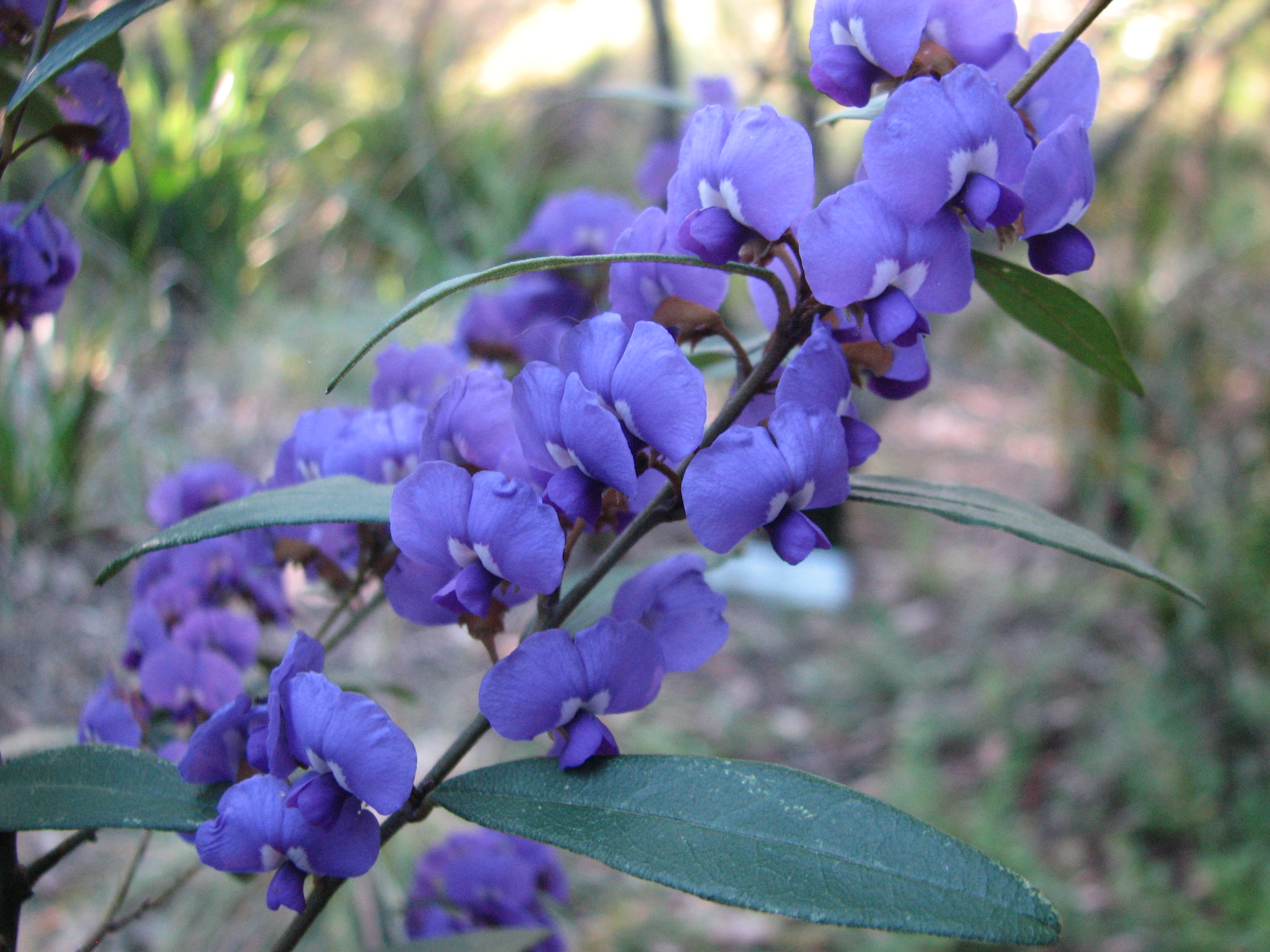 Hovea elliptica (cultivated, labelled), Maranoa Gardens, Balwyn, Victoria, Australia